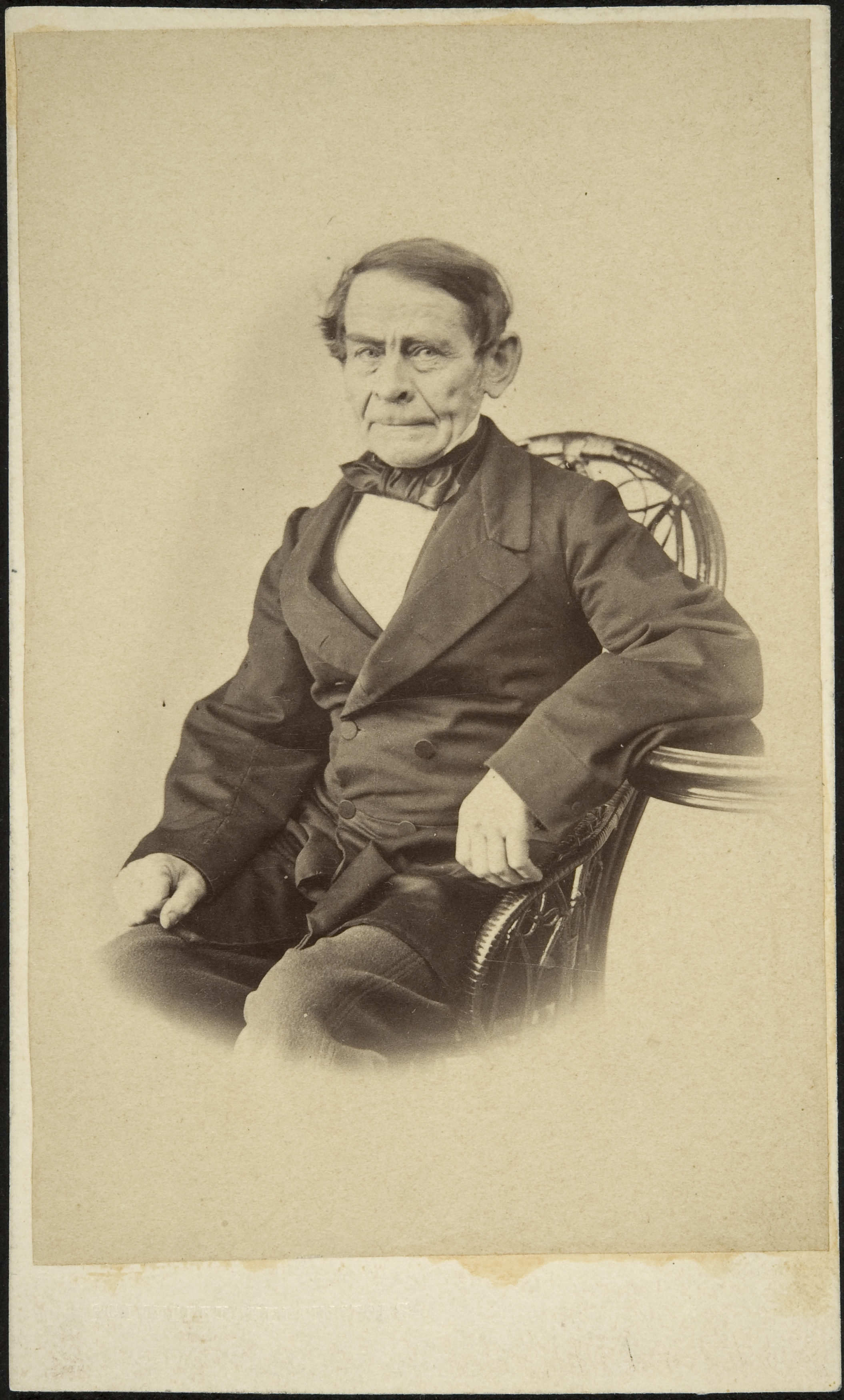 Photograph of the Finnish astronomer Henrik Gustaf Borenius (1802–1894).